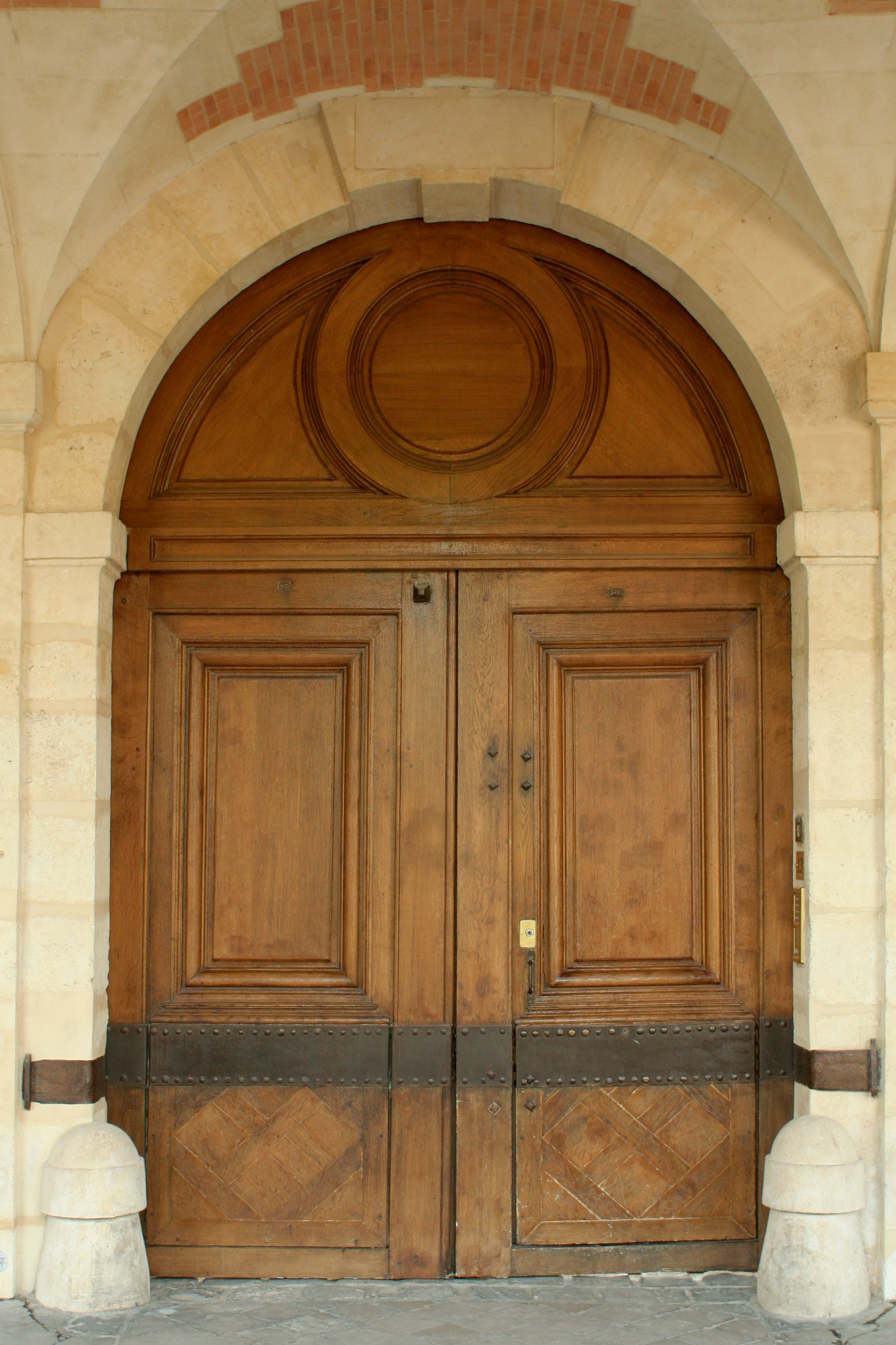 Door of 13 Place des Vosges, Paris.